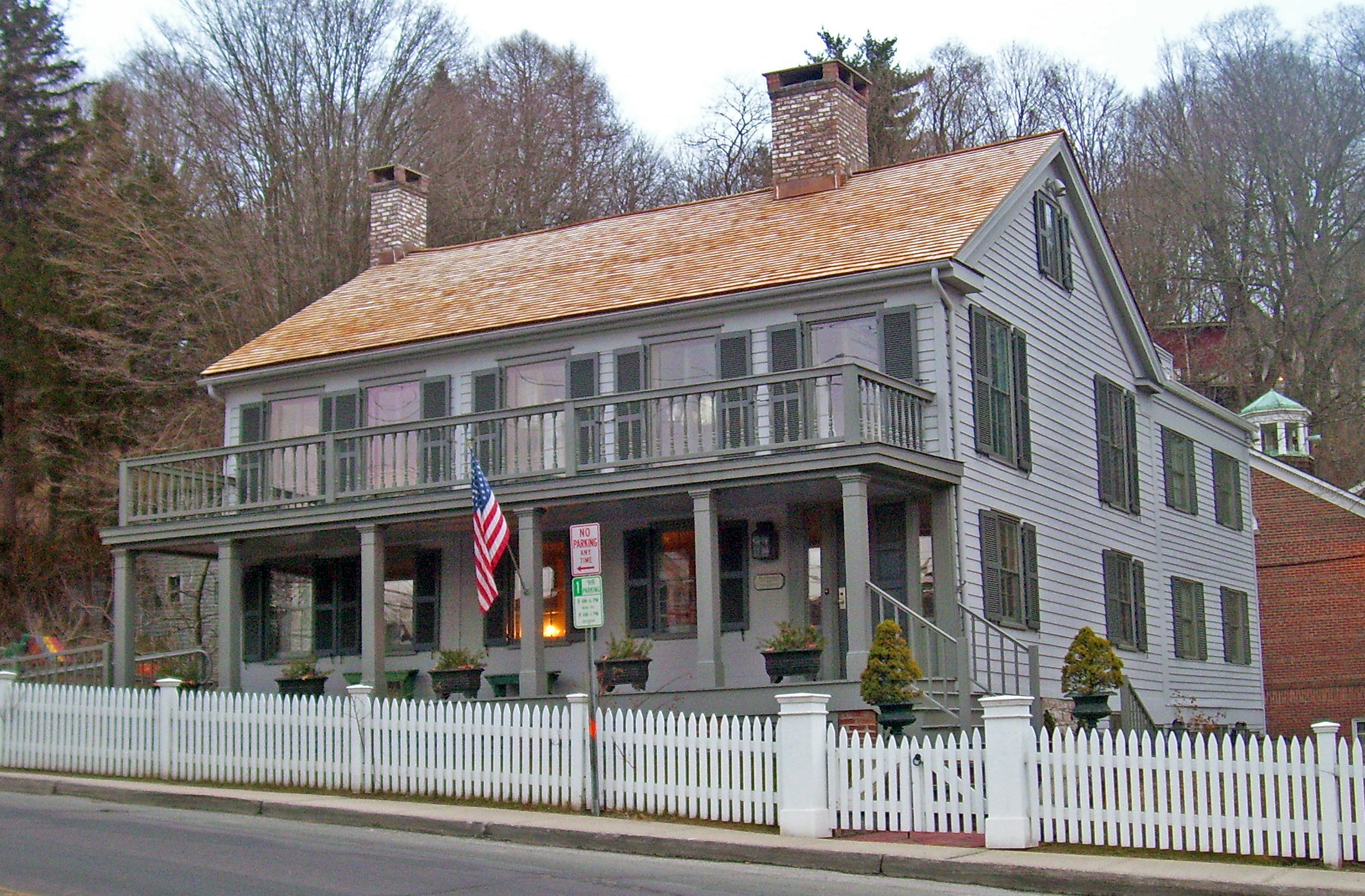 Horace Greeley House, Chappaqua, NY, USA